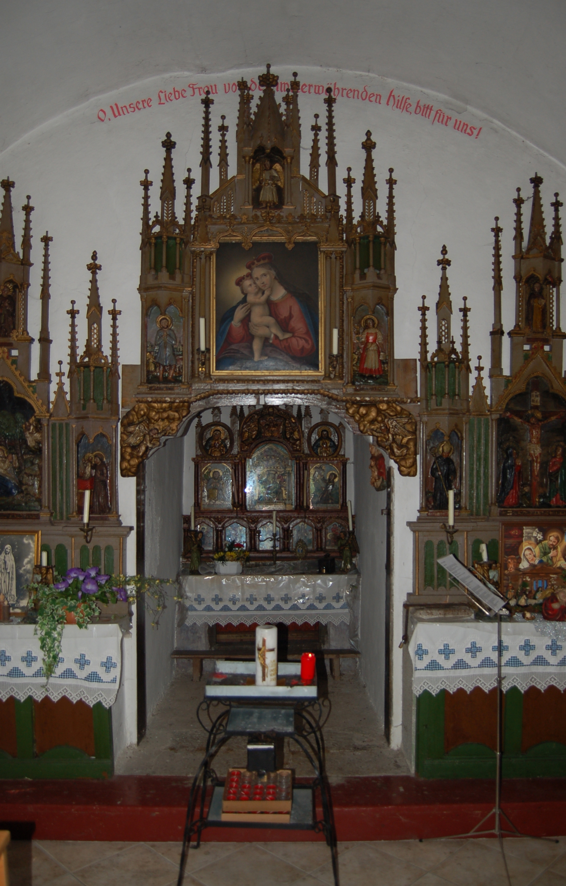 Wallfahrtskapelle Maria in Ramersberg (Gemeinde Kleinzell im Mühlkreis). The making of this work was supported by Wikimedia Austria. For other files made with the support of Wikimedia Austria, please see the category Supported by Wikimedia Österreich.